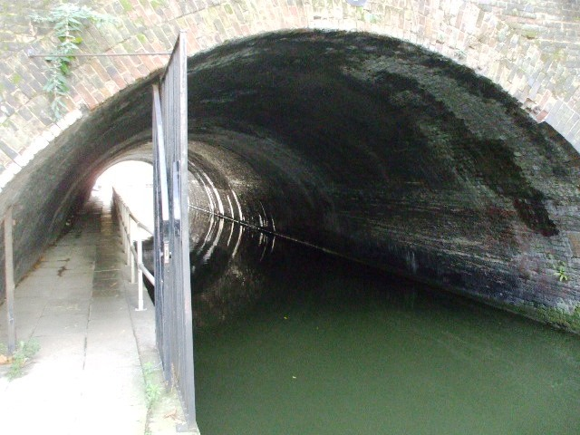 Lisson Grove tunnel, NW1. On the west side of a 48 yard tunnel, the shortest of three that goes through London but the only one that has a footpath. Not to be confused with the Maida Hill tunnel nearby, pic 1025616.